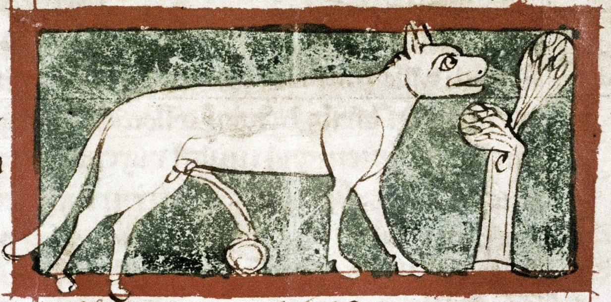 MS. Douce 88 , Manuscript on paper, Bestiary, English Date: 13th century, end Folio or page no.: fol. 008r Whole page or detail: detail Image description: Lynx. Roll title: MS. Douce 88, parts B-C (Bestiary texts). As is usual in bestiaries, the lynx is shown urinating, the urine turning to the mythical stone lyngurium